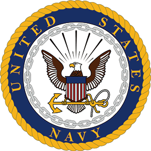 Official emblem of the U.S. Navy.